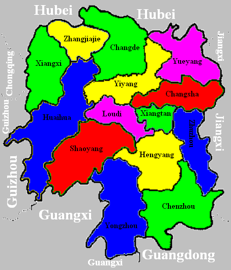 drawn by Cncn_wikipedia in March 10, 2004